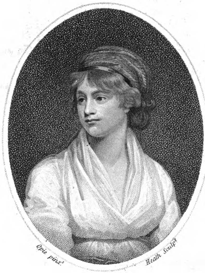 Portrait of Mary Wollstonecraft (1759-1797)